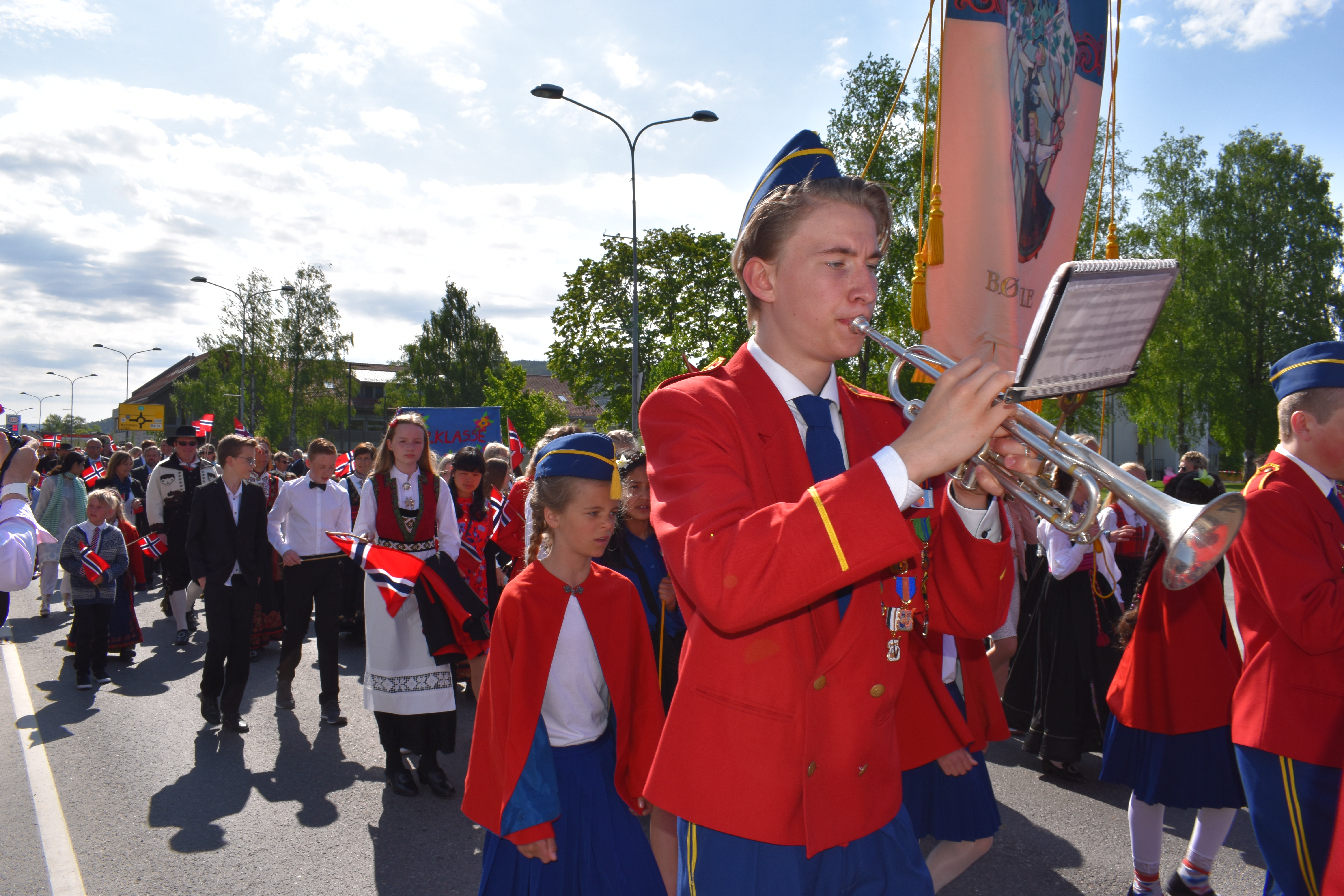 17 May